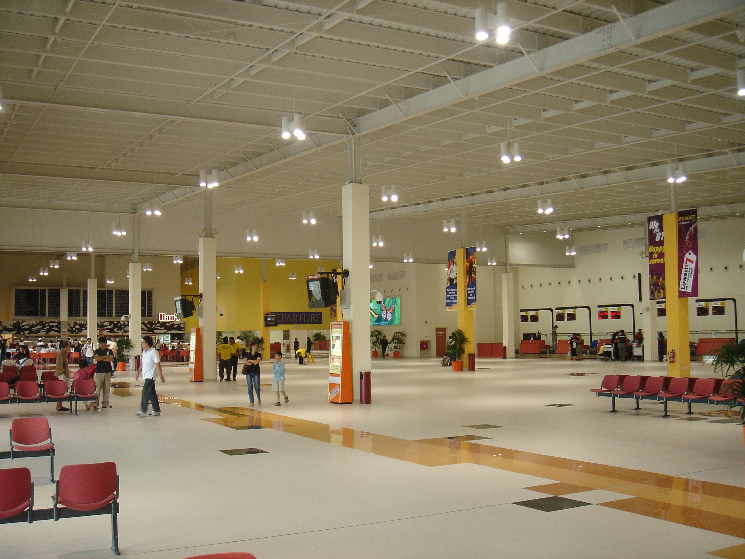 Interior of Budget Terminal, Departure Hall, Changi Airport, Singapore.